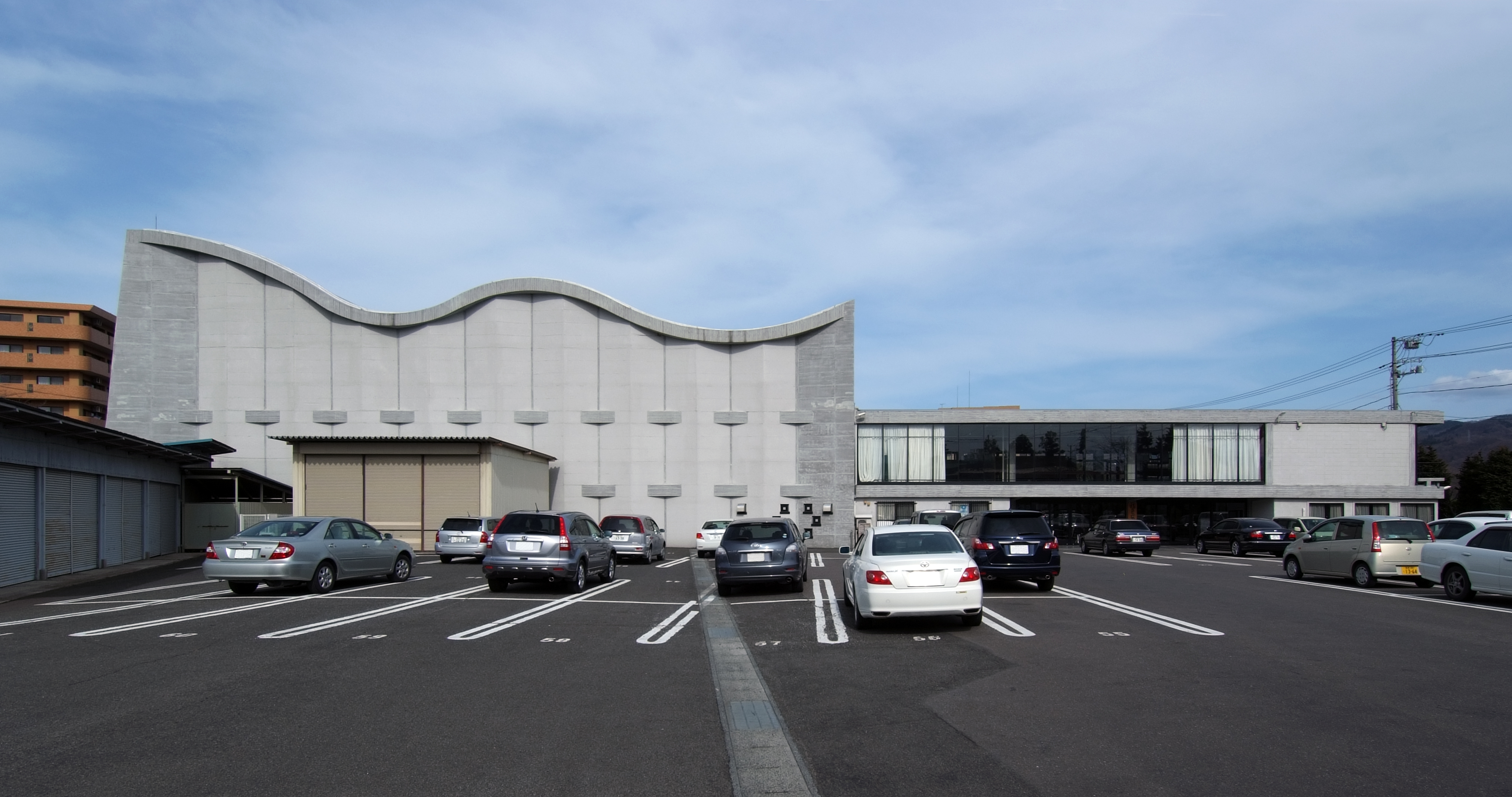 Fukushima Education Center, Fukushima Fukushima Japan, designed by MID Group (Maekawa Institute of Design Group) in 1956